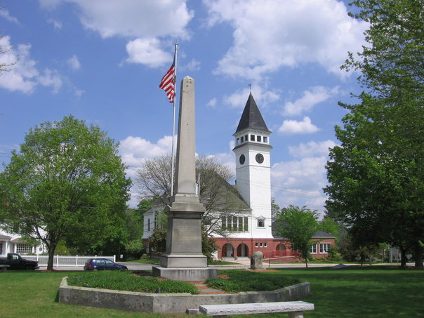 I took this picture myself.